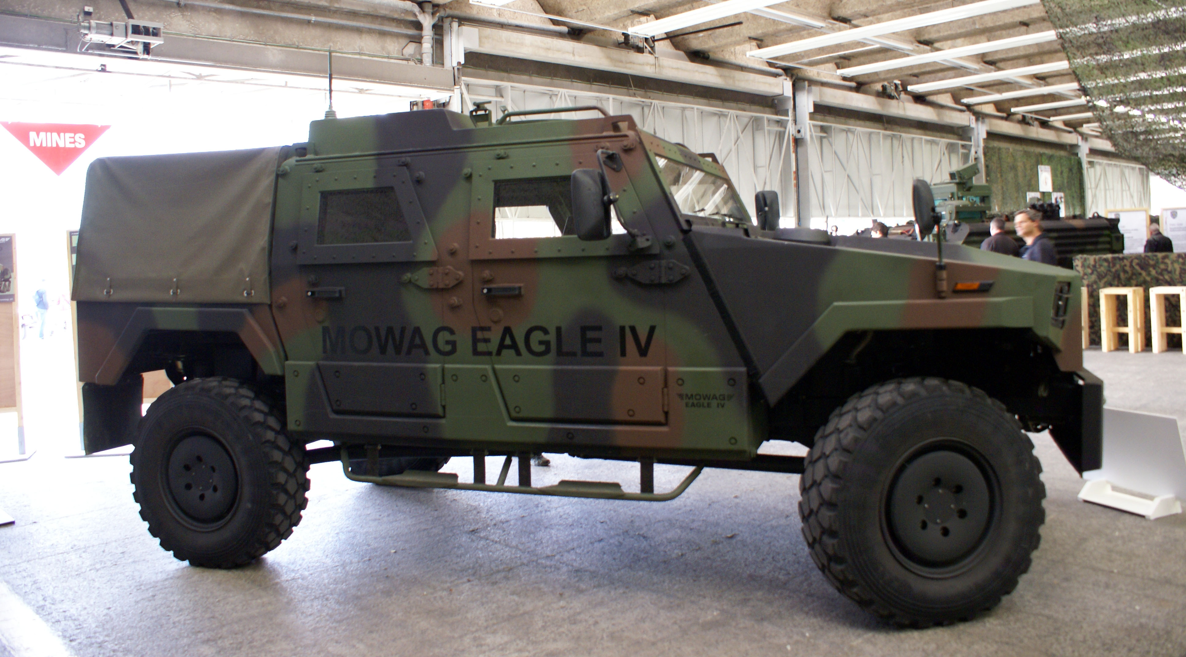 Swiss Army. Mowag Eagle IV armoured reconnaissance vehicle.